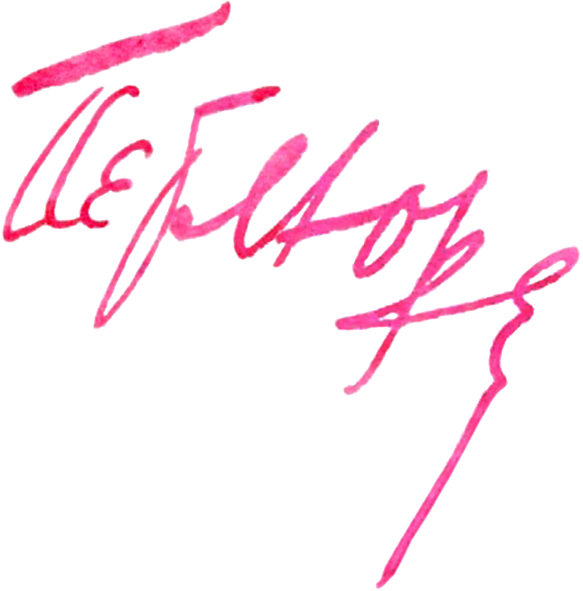 Signature of Symon Petlura